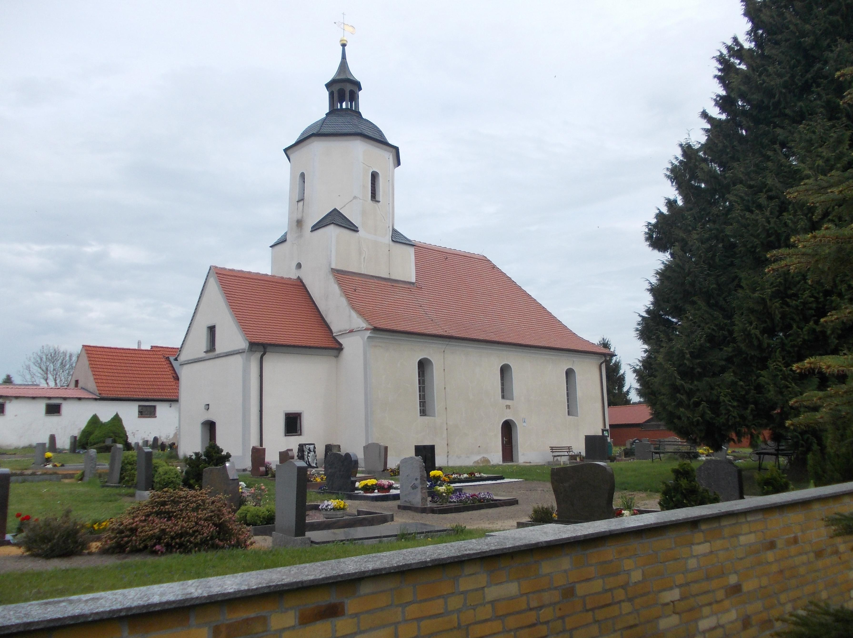 Tornau church (Gräfenhainichen, Wittenberg district, Saxony-Anhalt)